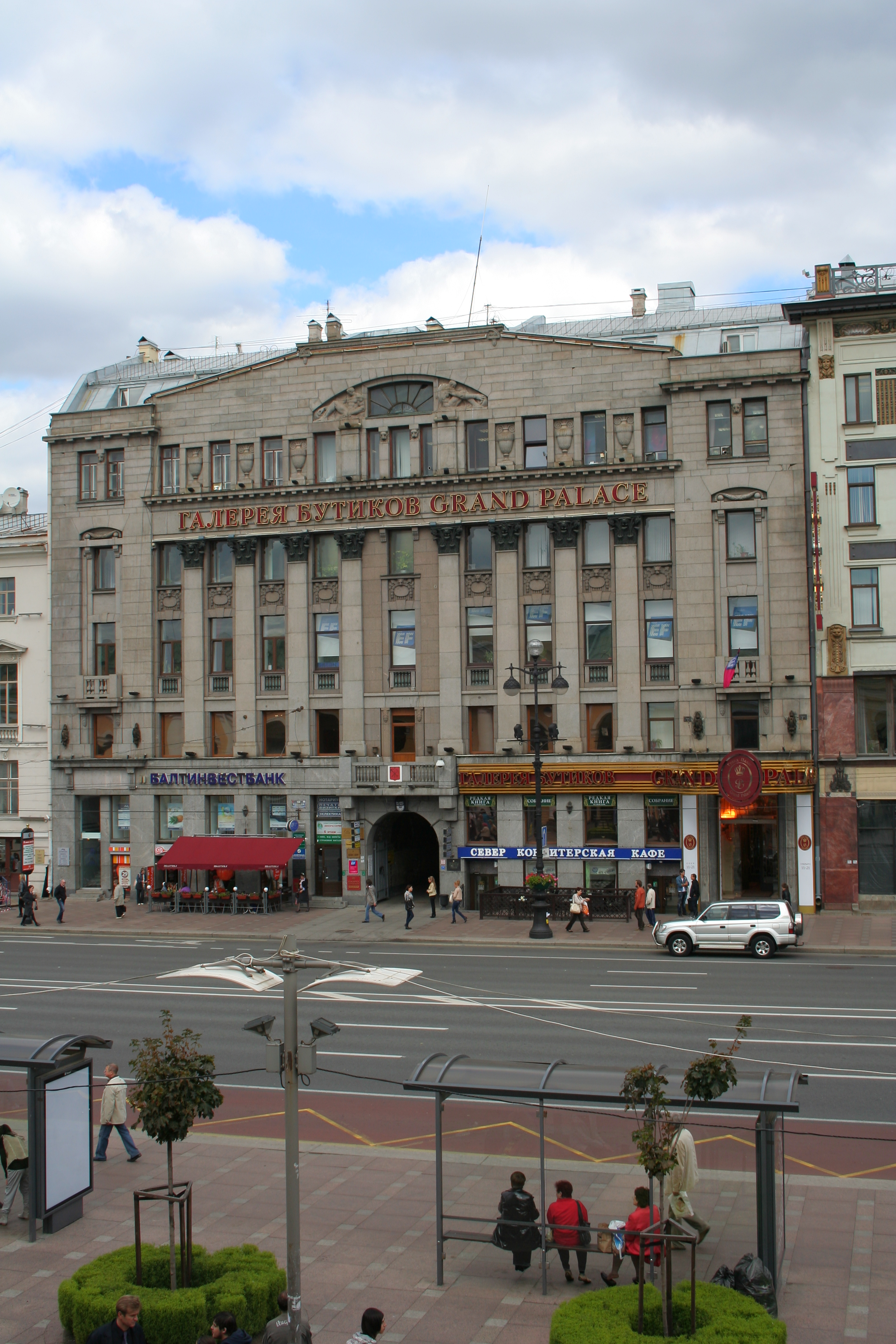 The Nevsky Prospekt in Saint Petersburg. House number 44.